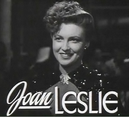 Cropped screenshot of Joan Leslie from the trailer for the film Rhapsody in Blue.